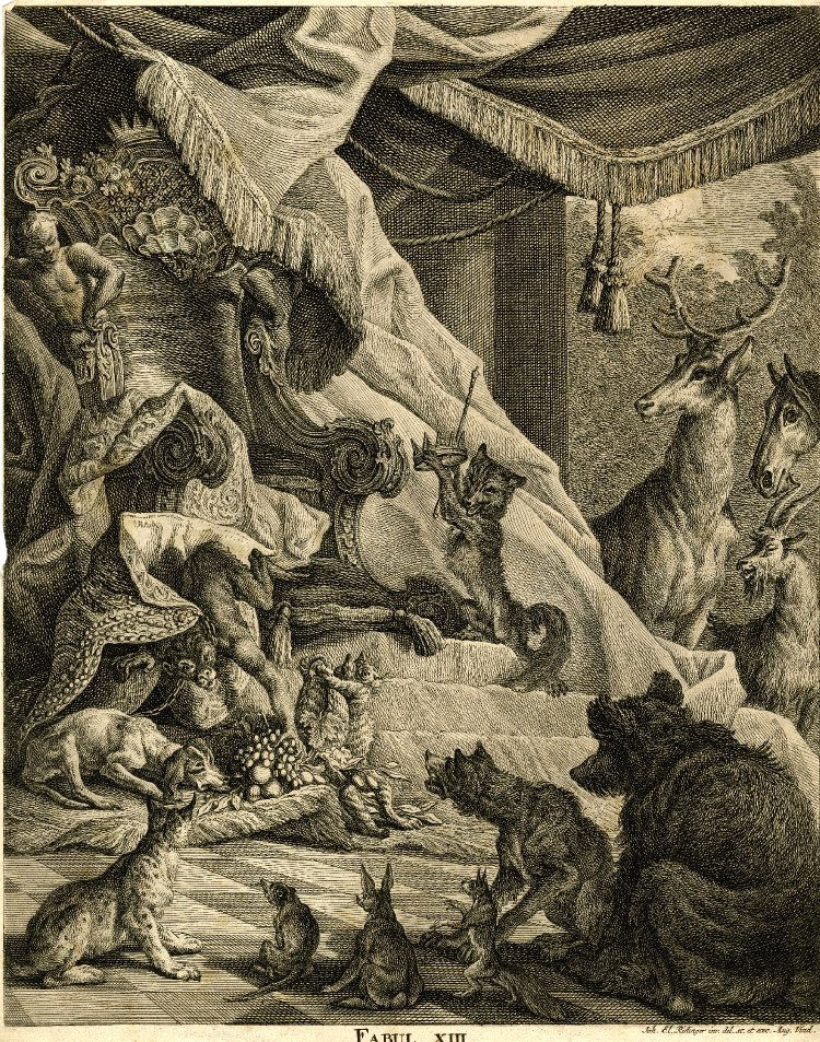 The fable of the Monkey King, Plate XIII from Johann Elias Ridinger's Instructive Fables from the Animal Kingdom for the Improvement of Manners and especially the Instruction of Youth (1744). It carries the inscription "A high social position is not always matched by intelligence".